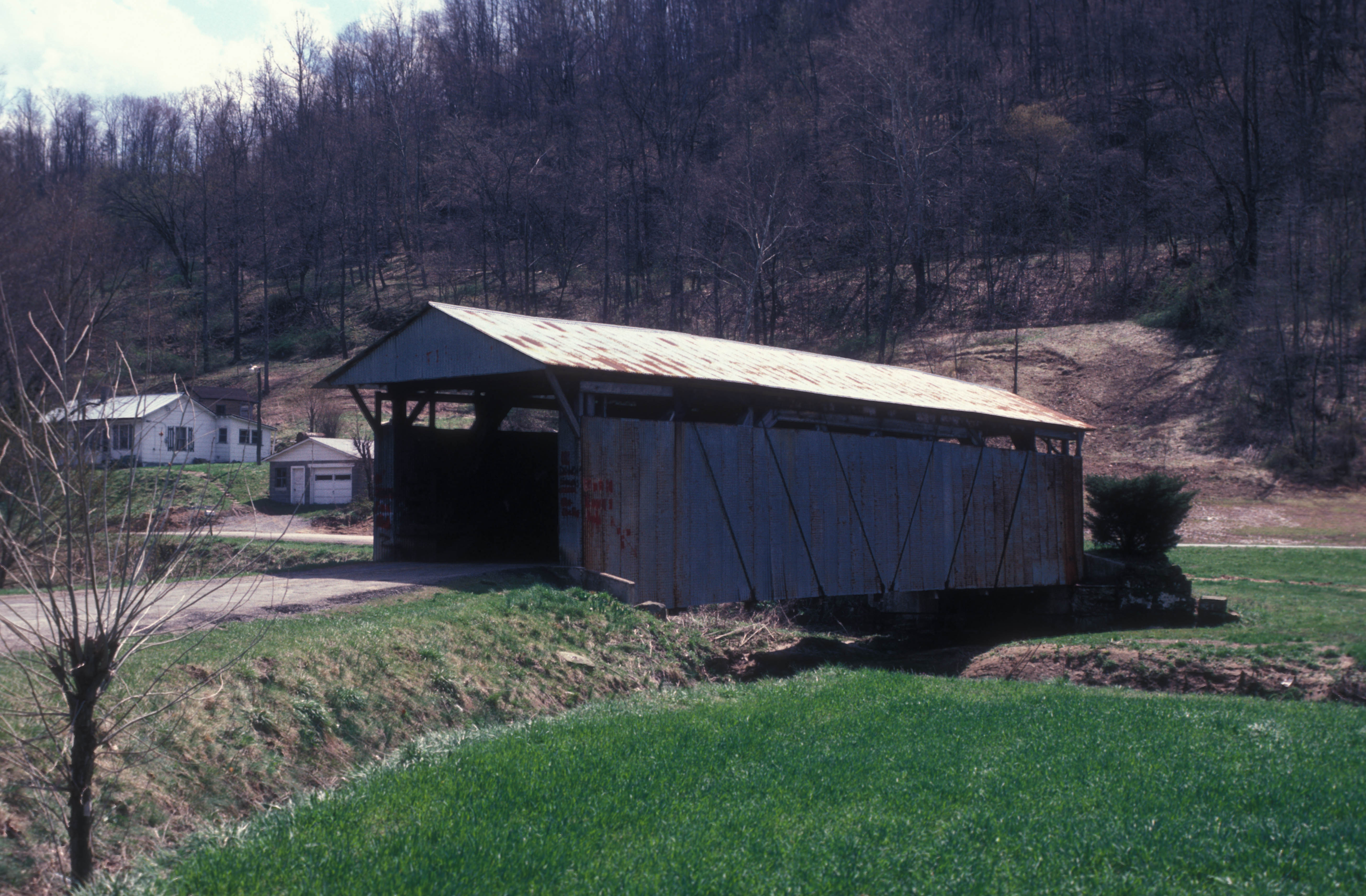 SCOTTOWN C.B. OVER INDIAN GUYAN CREEK; 1874 85' MKING & QUEEN; HAS CORRUGATED ROOF